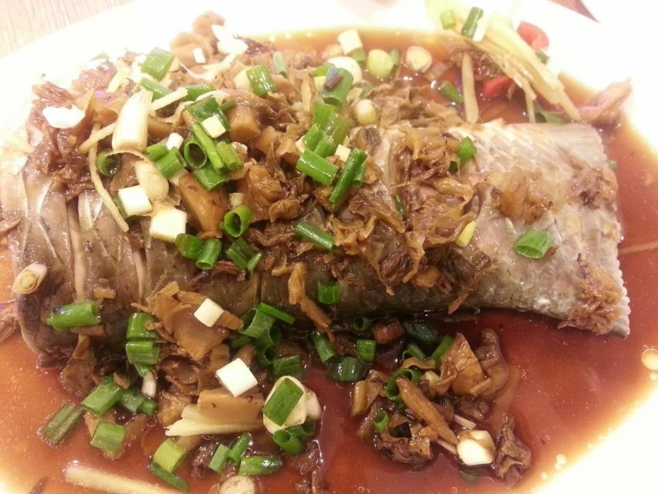 中式蒸魚, streamed fish